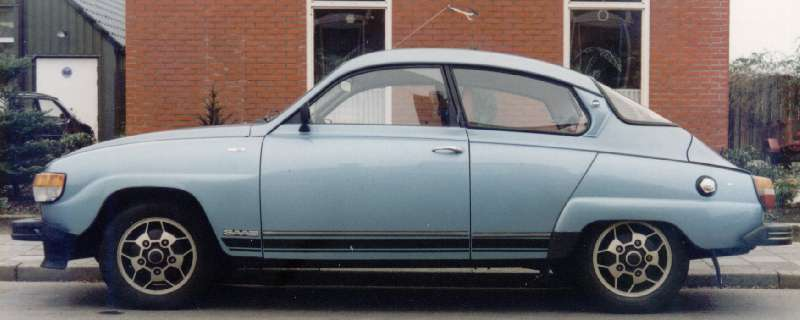 limited edition 1979 SAAB 96